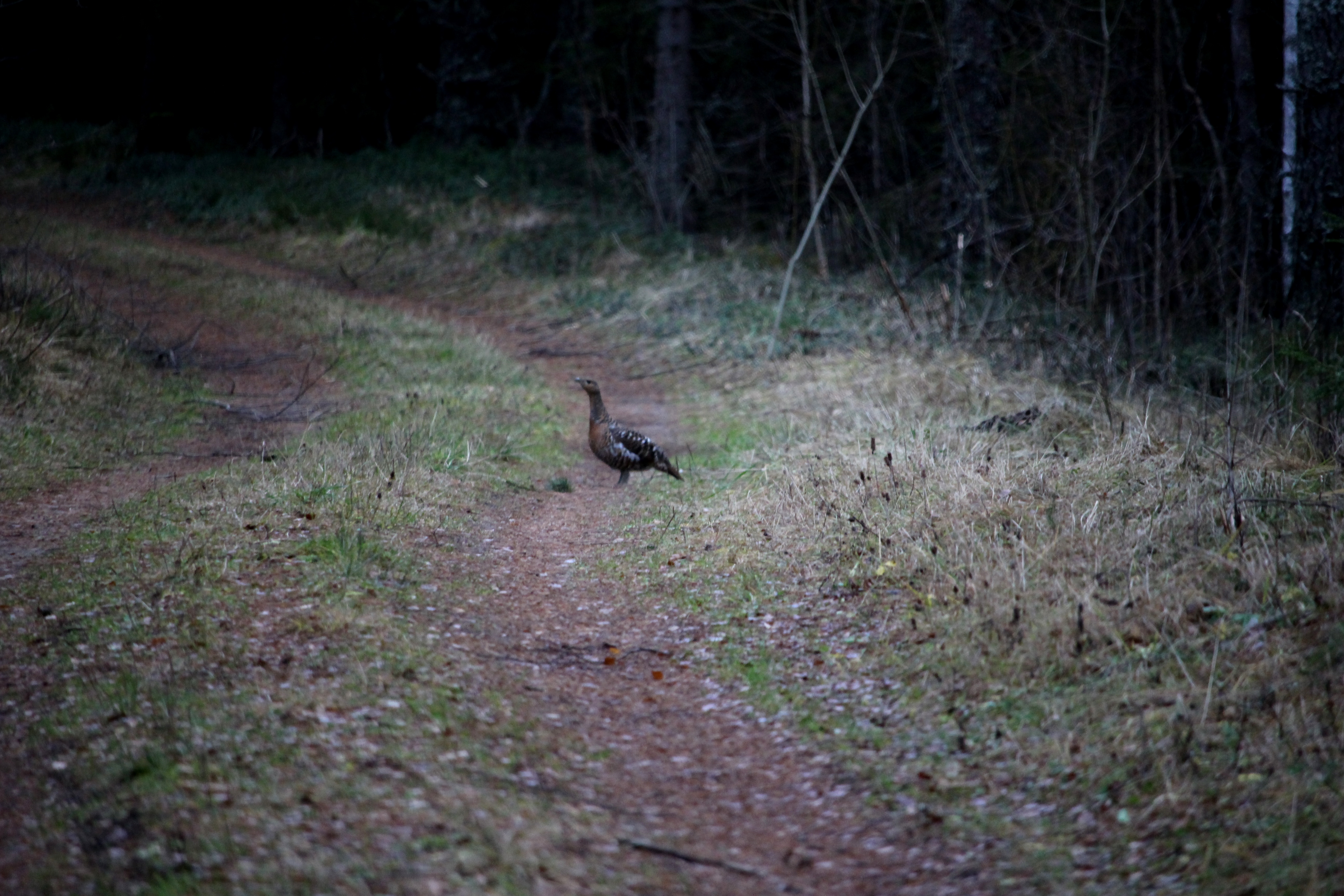 Western capercaillie,female. 0,4km Linnumängu (bird-conservation) nature conservation area in Estonia, Rapla County. Scientific classification Kingdom: Animalia Phylum: Chordata Class: Aves Order: Galliformes Family: Phasianidae Subfamily: Tetraoninae Genus: Tetrao Species: T. urogallus Binomial name Tetrao urogallus